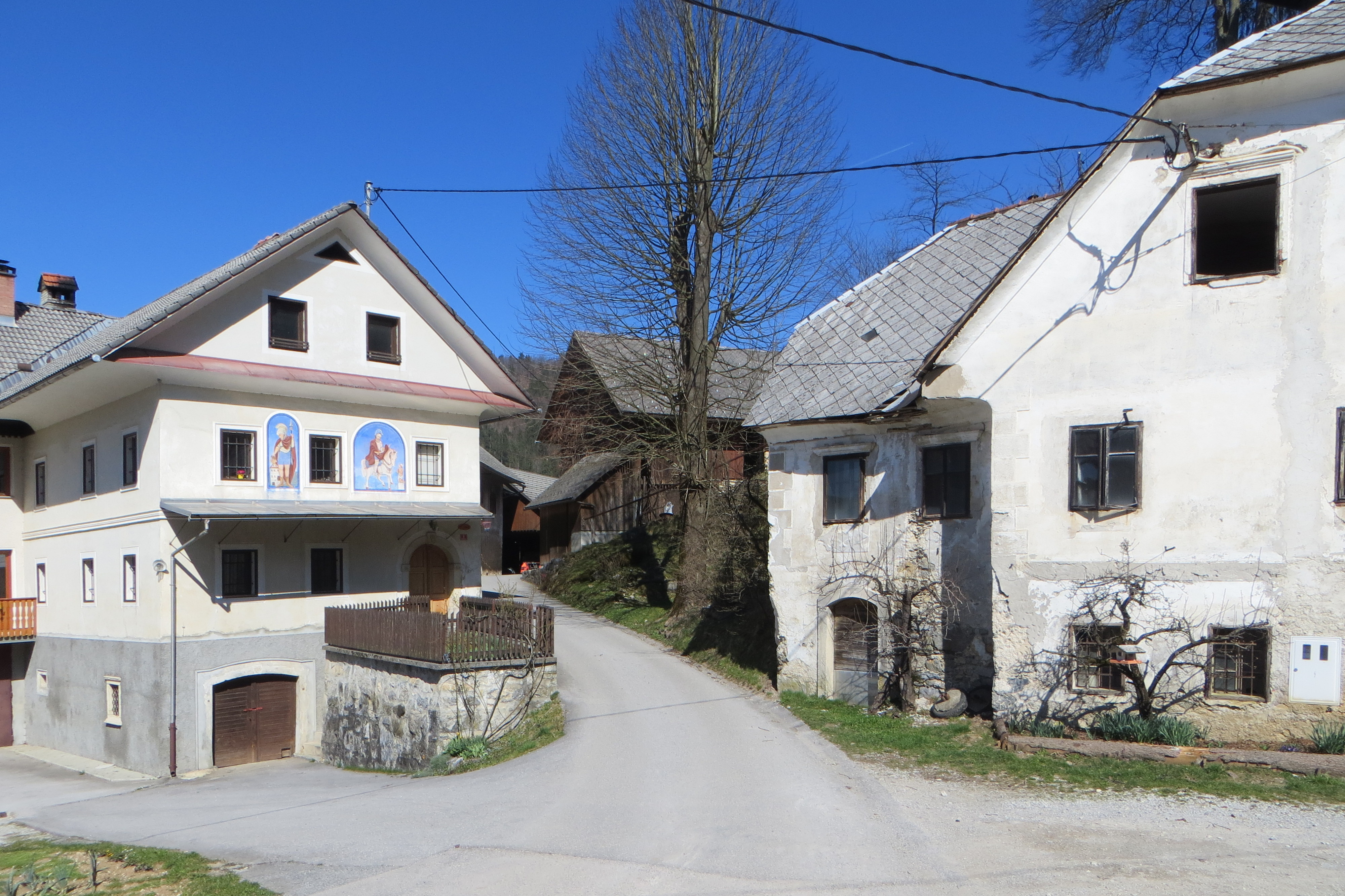 Hotovlja, Municipality of Gorenja Vas–Poljane, Slovenia